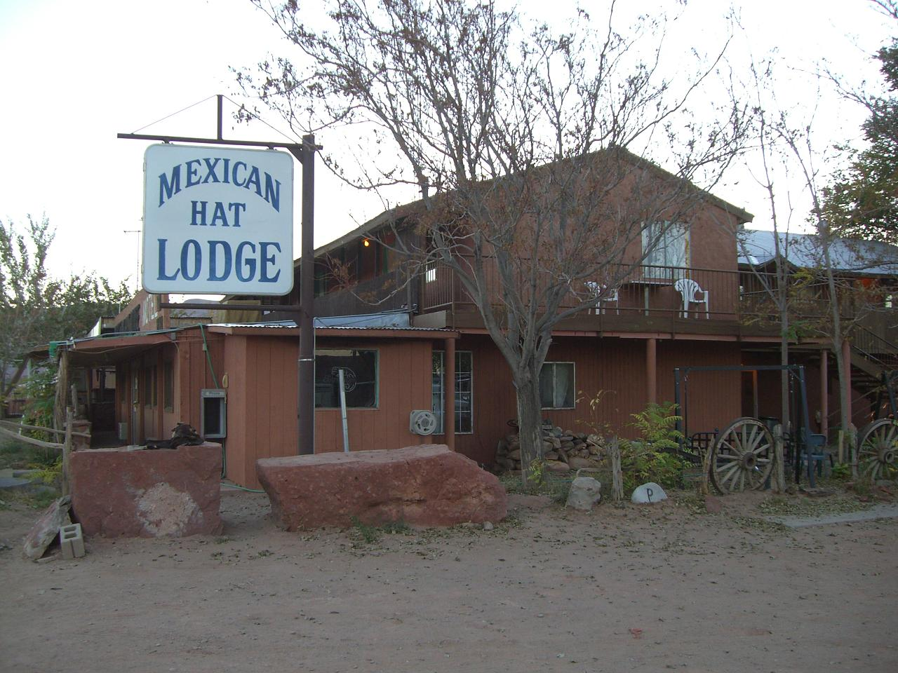 The Mexican Hat Lodge in Mexican Hat, Utah.